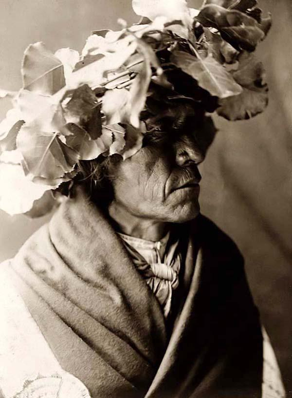 The image shows Porcupine, a Cheyenne man, head-and-shoulders portrait, facing right, wearing a wreath of cottonwood leaves on his head